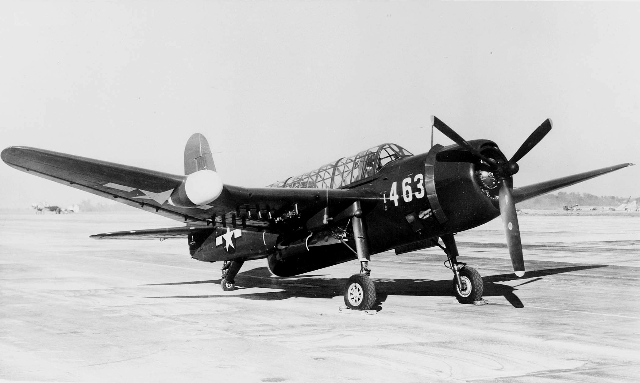 A U.S. Navy Consolidated TBY-2 Sea Wolf (BuNo 31463) sitting on the flight line. Note the APS-4 radar, zero-length rocket launchers, and the machine gun pods under the wings.